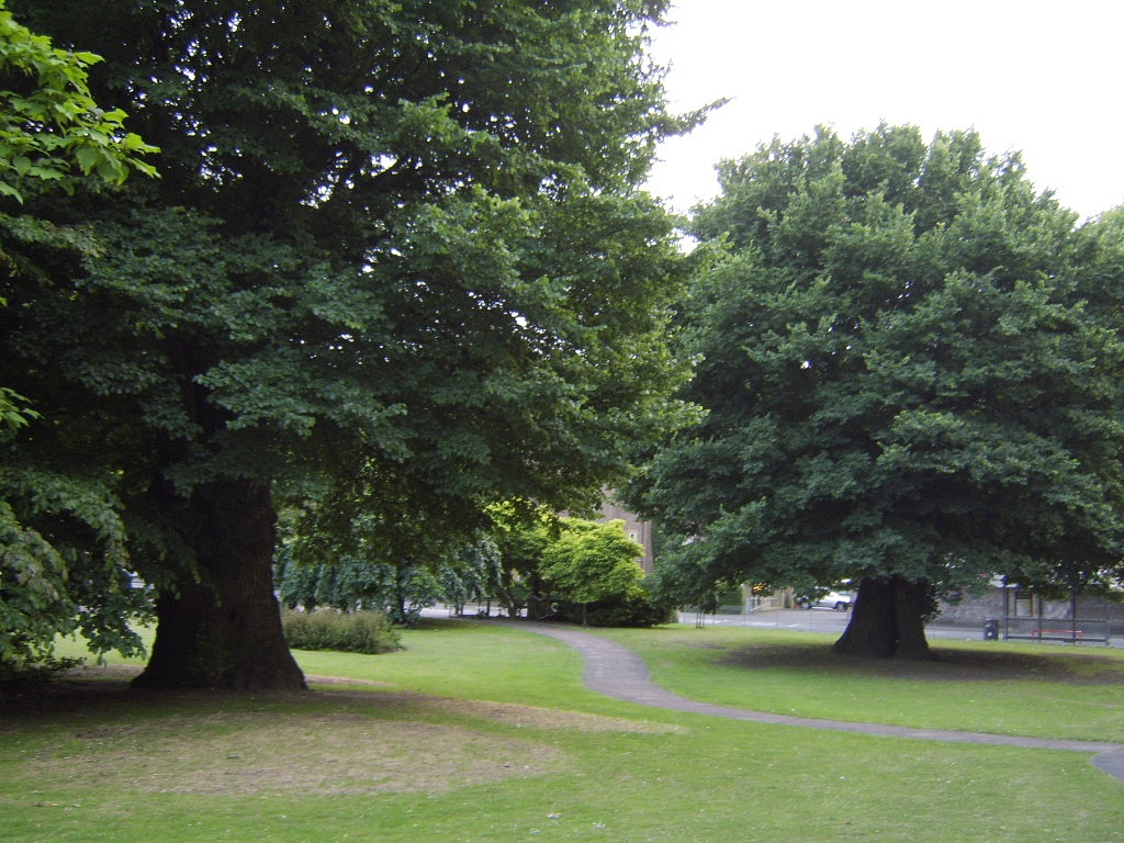 Largest English elms in the world, at Preston Park's Coronation Garden, Brighton. 2008